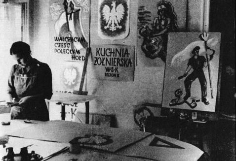 Warsaw Uprising: In insurgent Graphics Studio on Wilcza street.